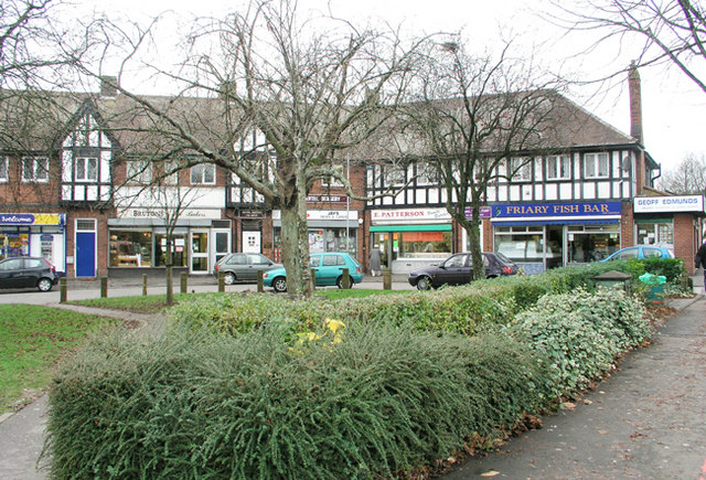 Shops at Fairwater Green, Cardiff